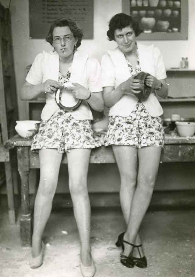 Delia Parker (left) and Ione Gedye (right) working in the Technical Department of the Institute of Archaeology in its original location at St John’s Lodge, London.